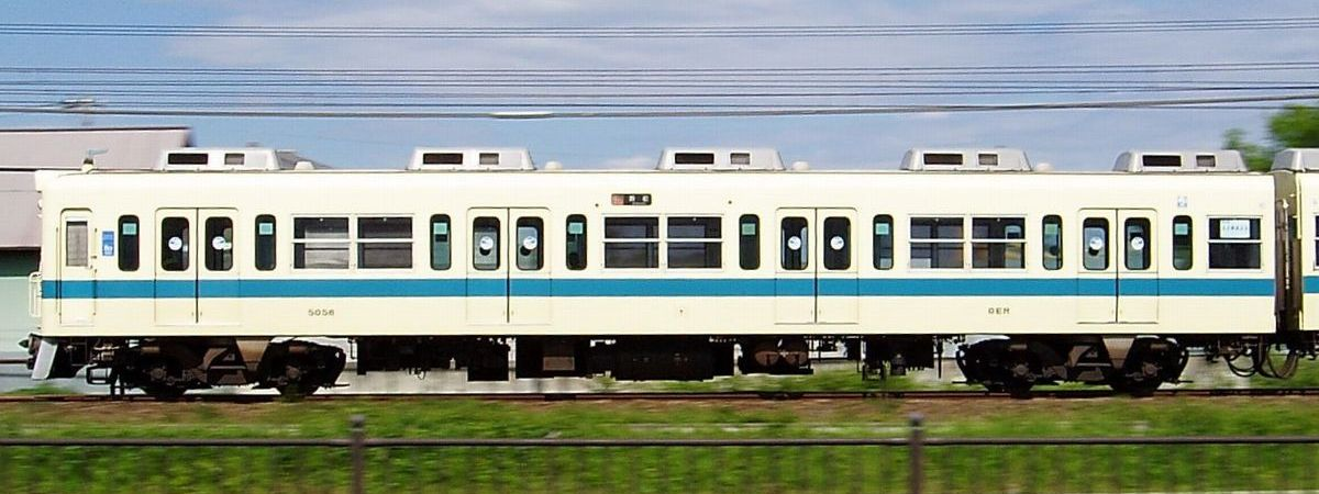 Odakyu Electric Railway Company, EMU Type 5000 between Kayama Sta. and Tomizu Sta.